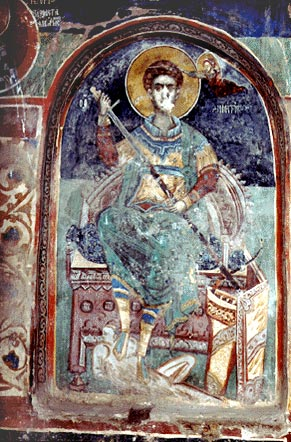 Palatitsia St. Demetrios Church Fresco.